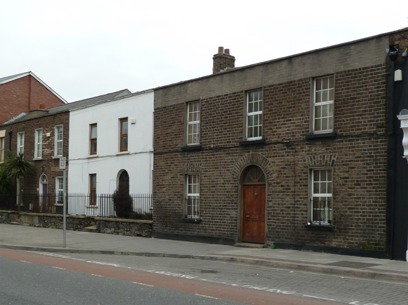 Photograph of 19th-century houses in Clanbrassil Street, Dublin, Ireland